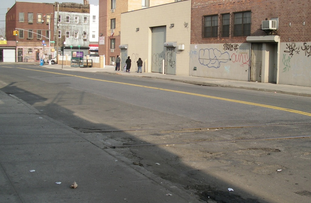 remains of railroad tracks that used to run parallel to and between Wyckoff & Irving Avenues. It's these tracks that are responsible for the mess of industrial uses that are inserted into this residential area.